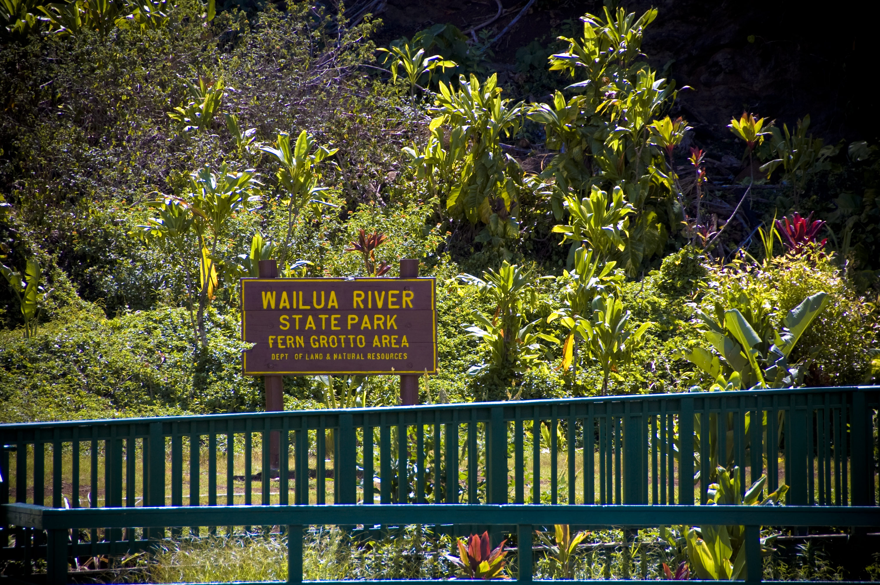 Wailua River State Park — Fern Grotto — Kauai.